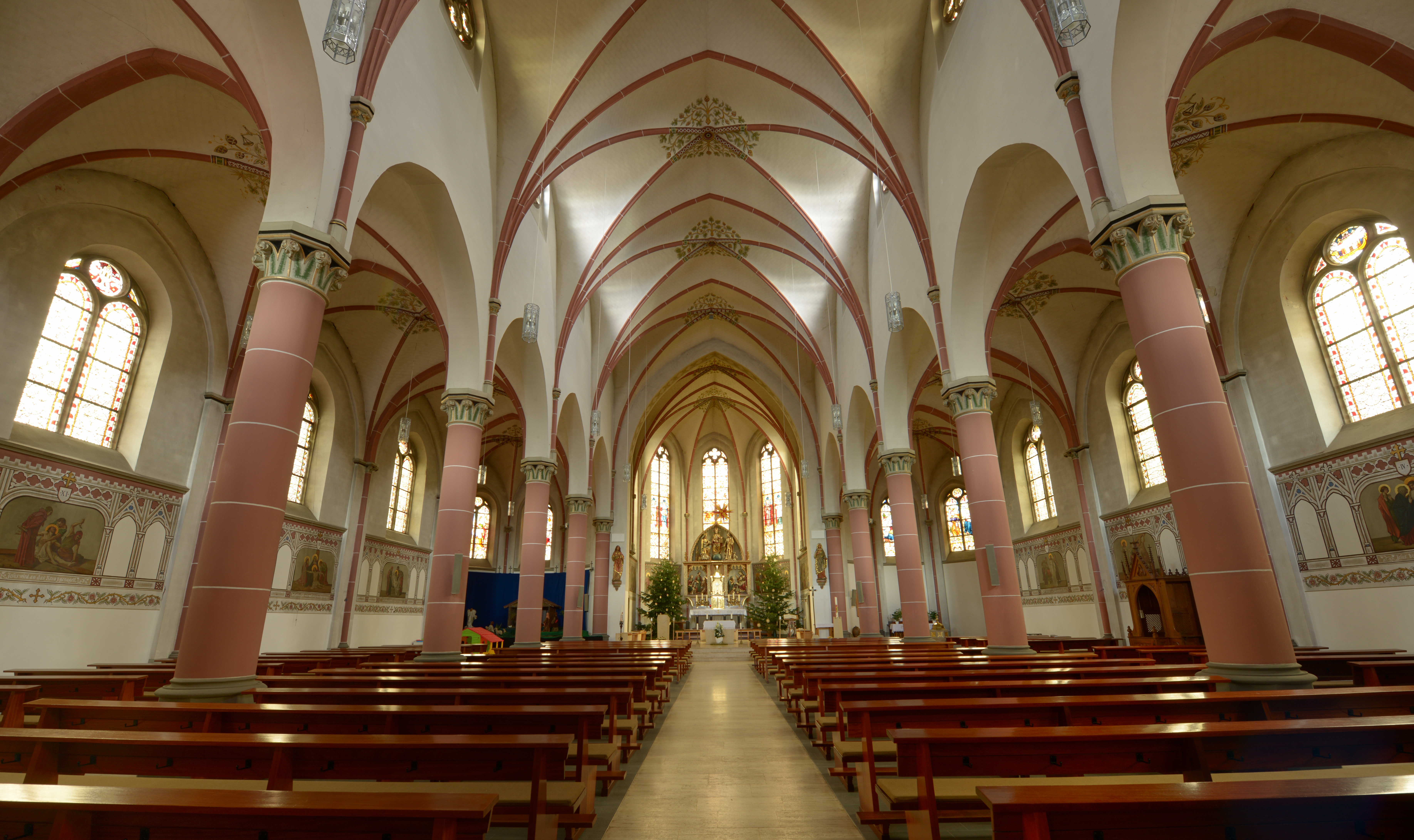 Catholic Church St. Josef in Uchtelfangen, Illingen/Saar, Saarland, Germany (2016)